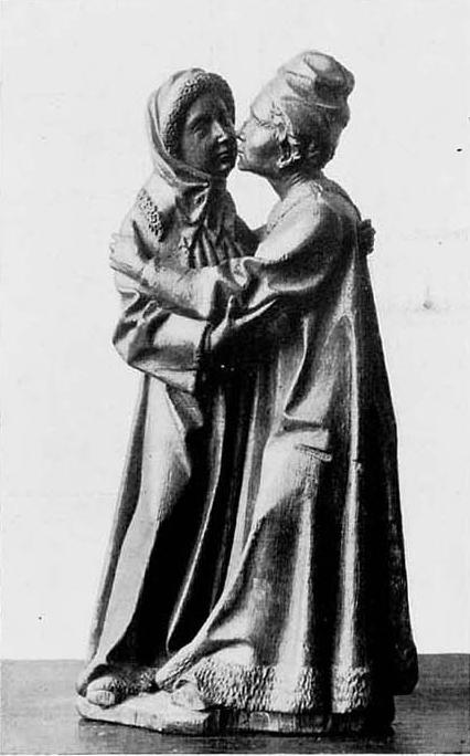 Master of Joachim and Anne (active in the Northern Netherlands (?) 1460-1480). The Meeting of Joachim and Anne. c. 1470. Oak, traces of paint. 47 × 24.5 × 11 cm. Amsterdam, Rijksmuseum Amsterdam (inv.no. BK-NM-88).